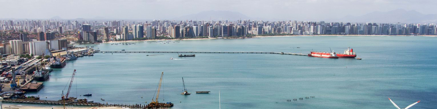 The port zone in Fortaleza, Brazil.